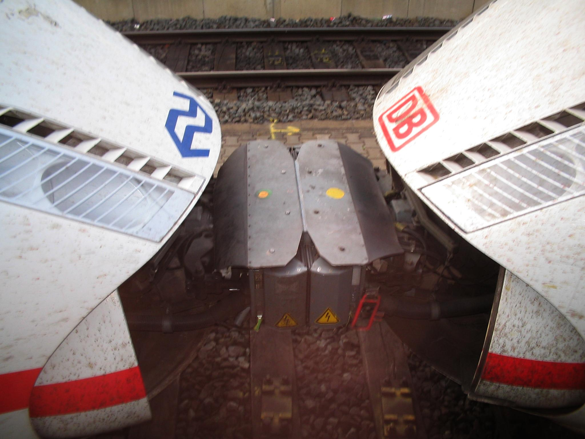 A Dutch ICE 3 train (DB class 406) coupled (in locked state) with a German ICE 3 (DB class 403) in Frankfurt am Main.